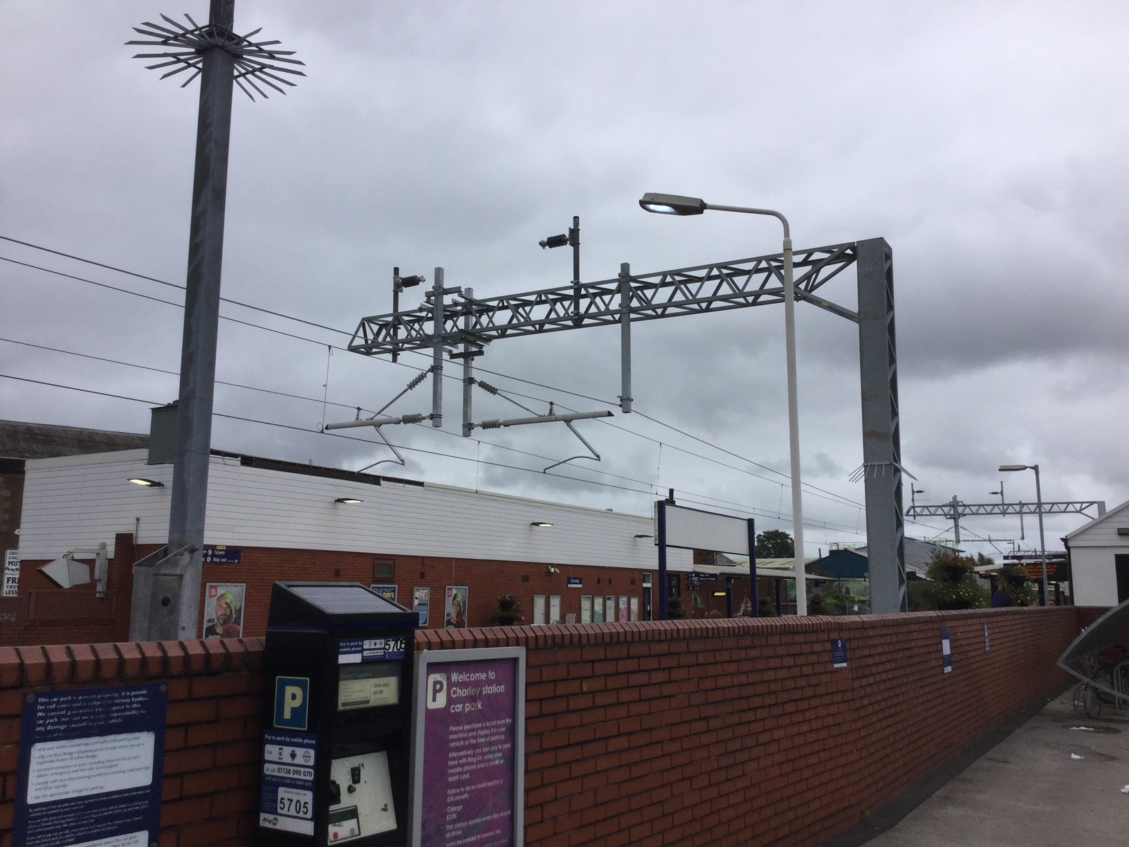 Chorley Railway Station August 27th 2018 undergoing electrification work